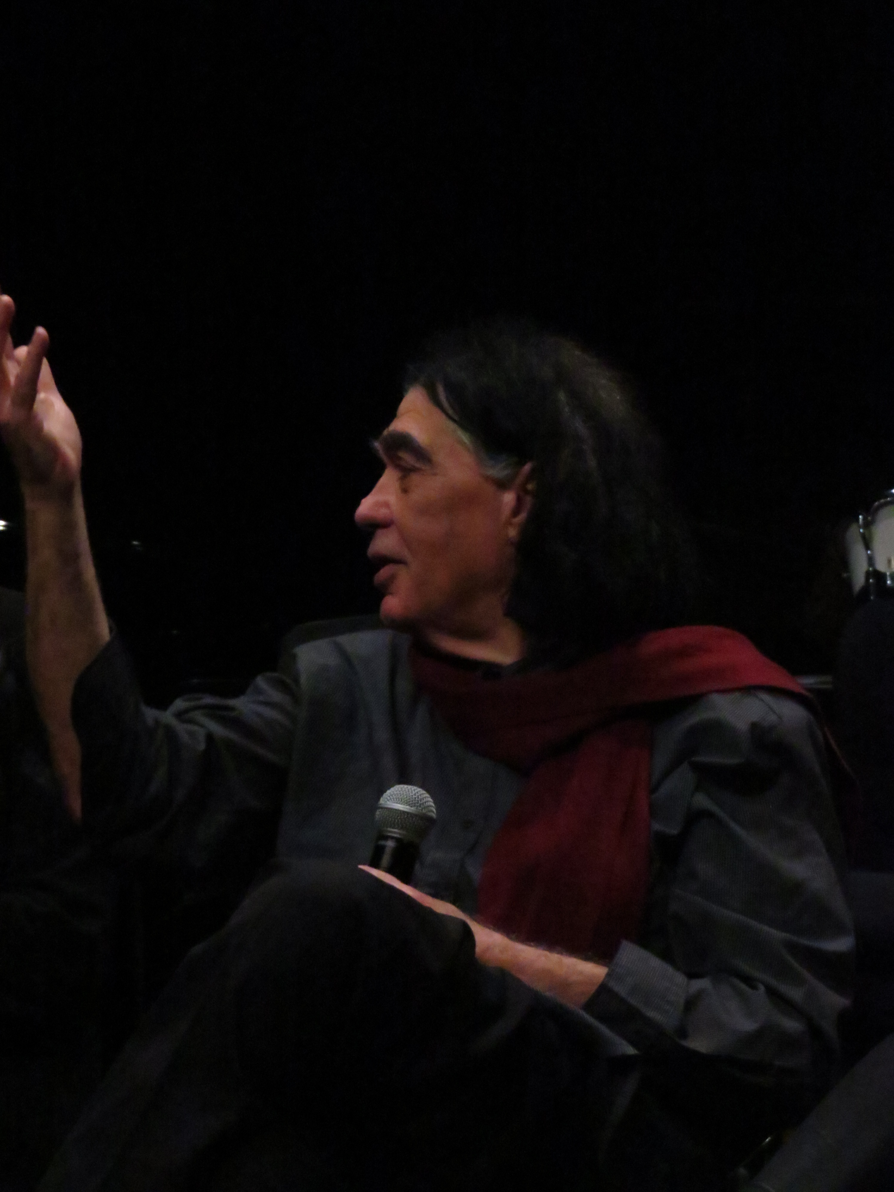 in dialogue with Christos Carras in the Onassis Center Athens after a concert. Press conference